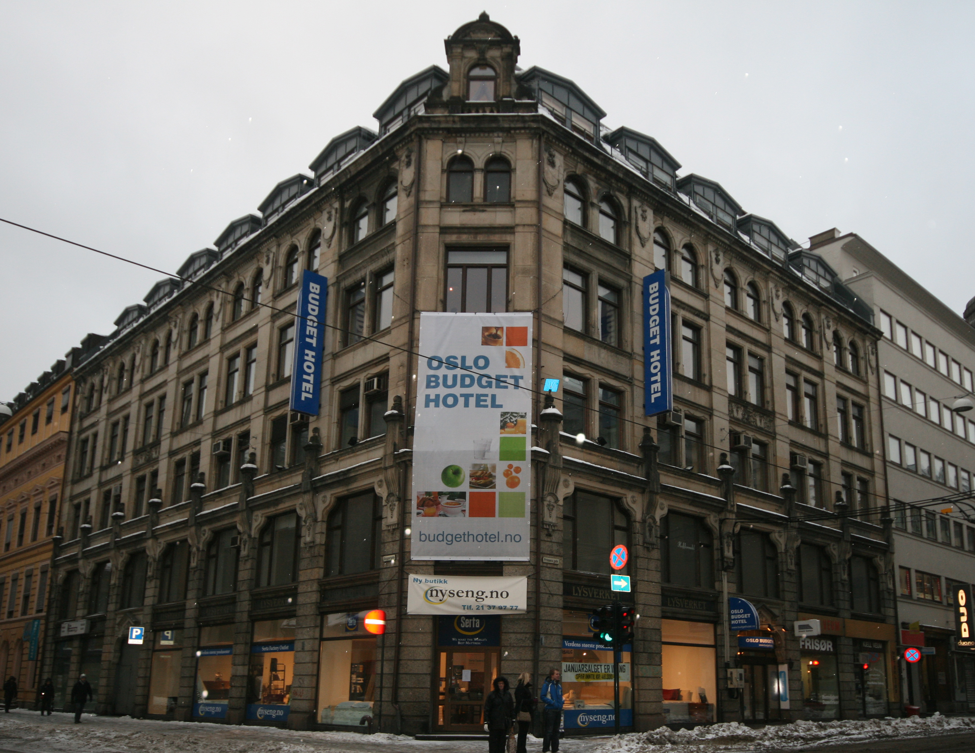 Skippergata 19 in Oslo, Norway: Oslo Budget Hotel